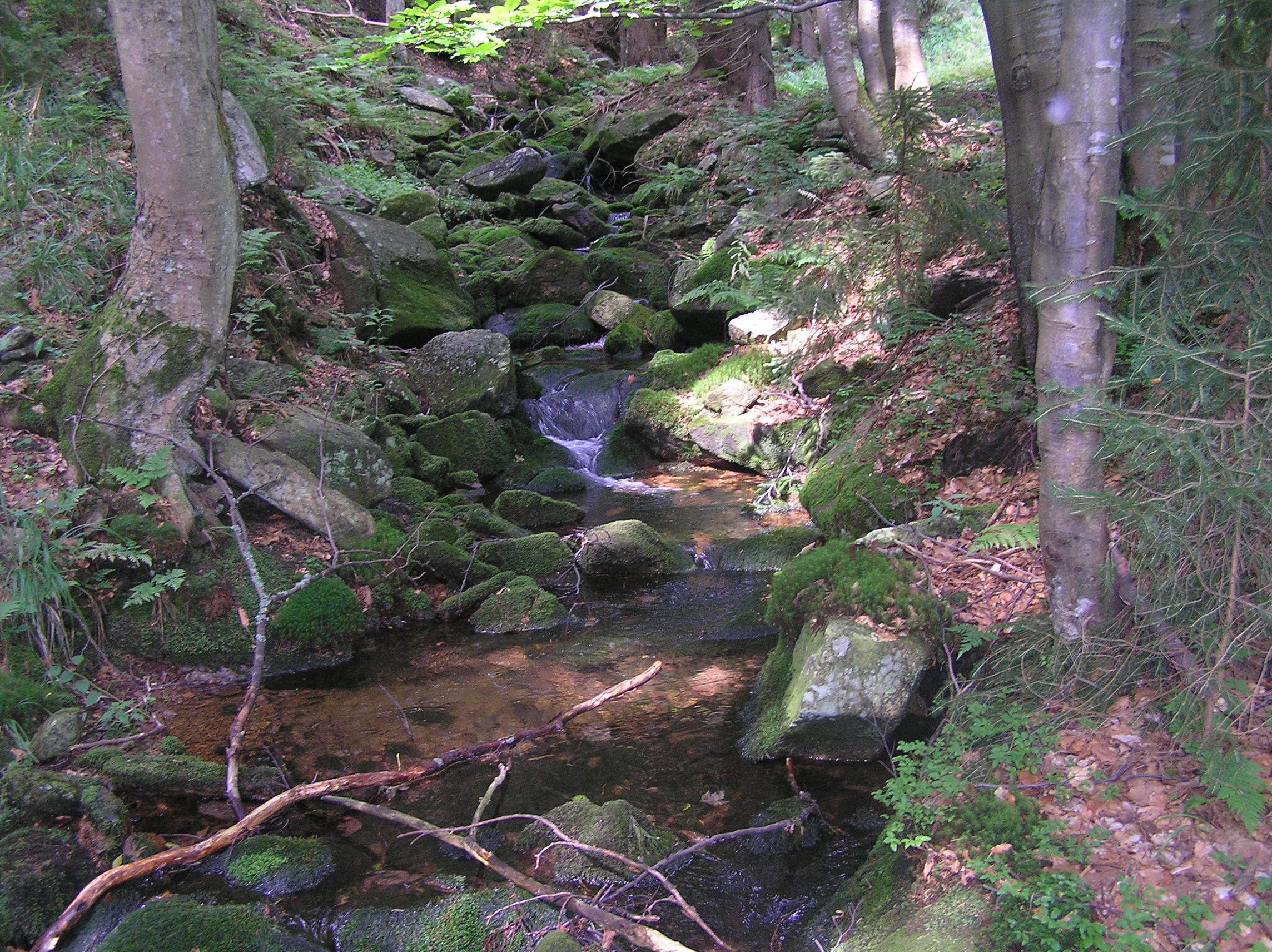 Hluboký potok is the creek in the Králický Sněžník Mountains, Czech Republic